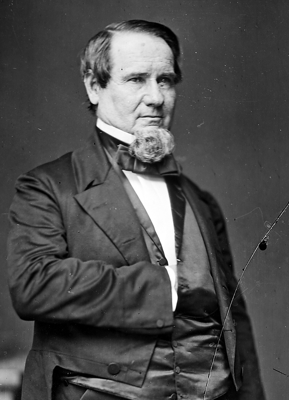 Hon. Aaron V. Brown, Tenn